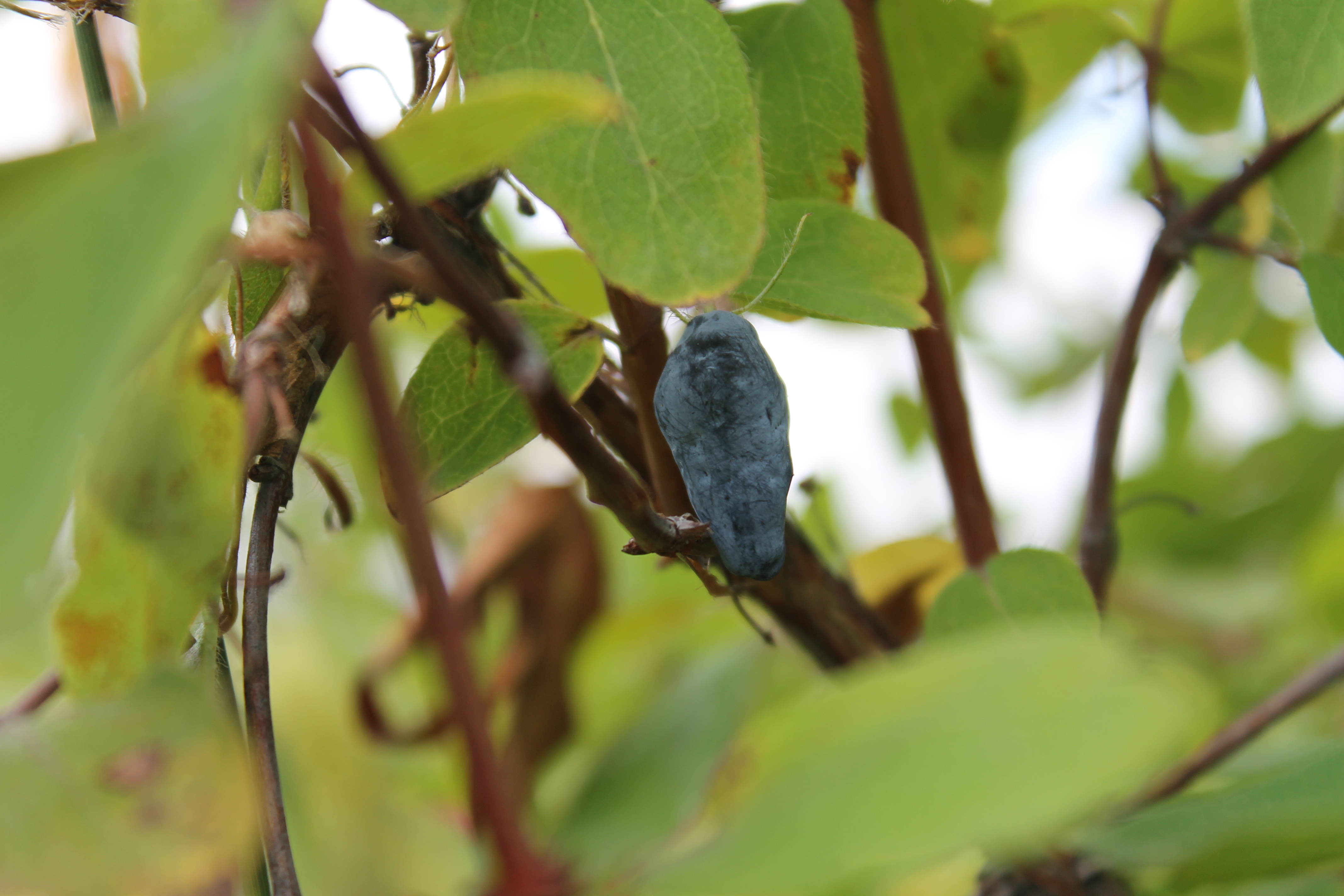 Lonicera edulis